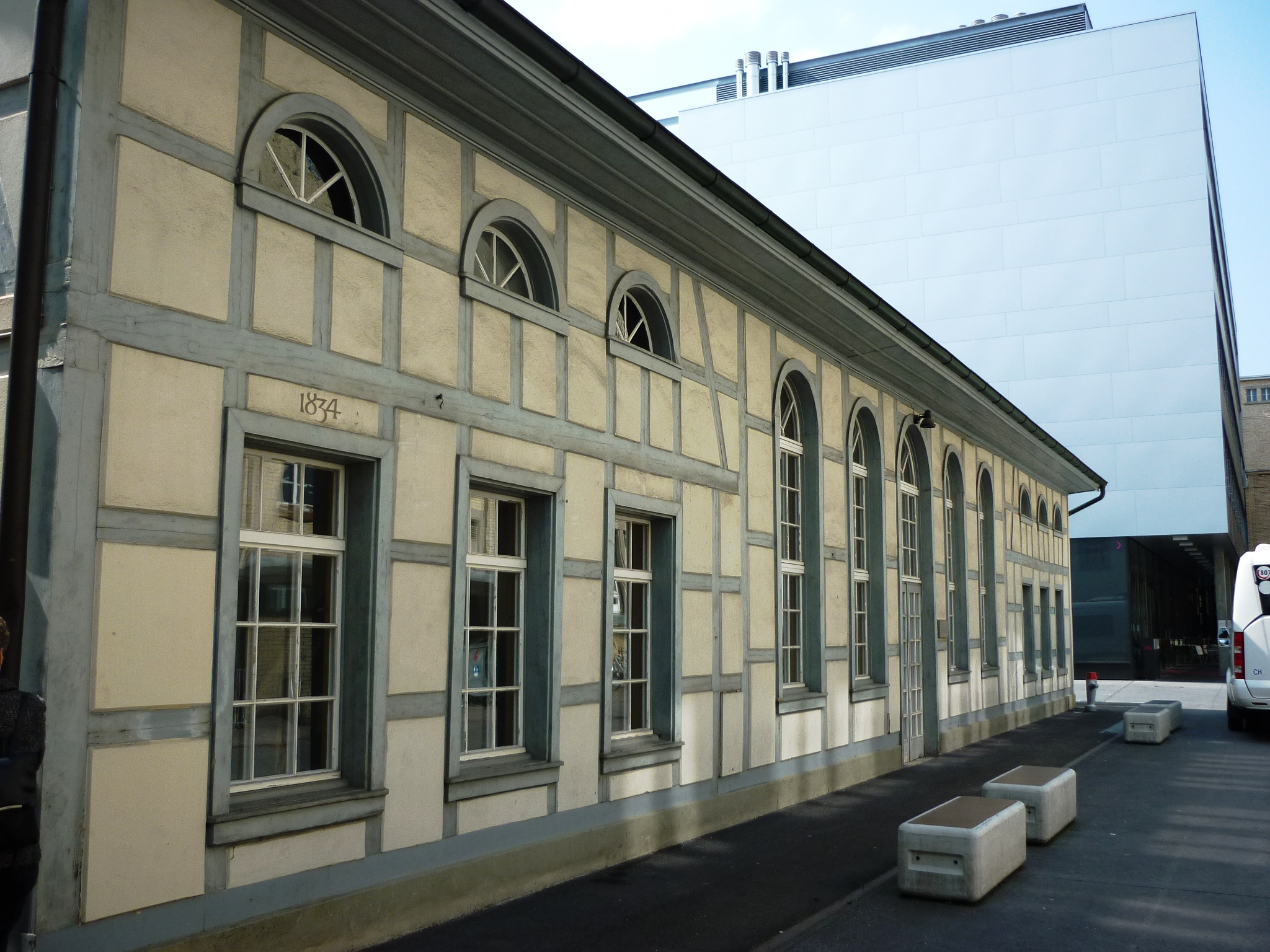 founders building in the Sulzer Area, Winterthur ZH, Switzerland